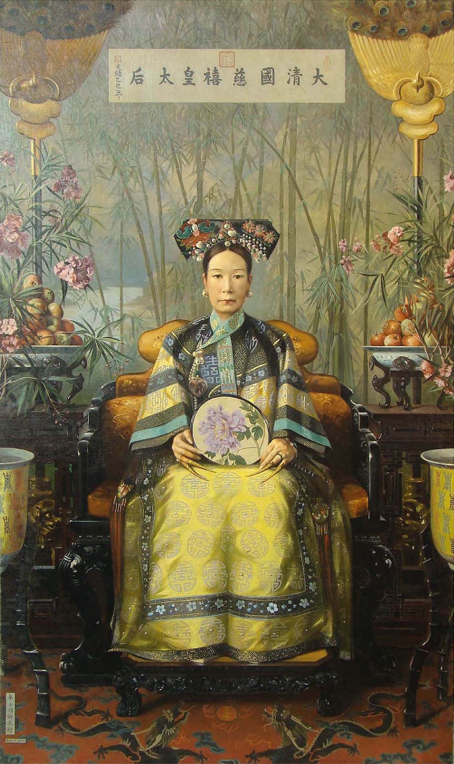 Oil painting, by Dutch painter Hubert Vos, of the dowager Empress Cixi of Qing Dynasty siting on an armchair. On the bamboo forest painted background, there is written from right to left, in traditionnal chinese 《大清國慈禧皇太后》 (simplified : 《大清国慈禧皇太后》), meaning "Great Qing Empire Cixi Empress". Cups of fruits surrounding the character, as for any highest rank personality in Imperial China.